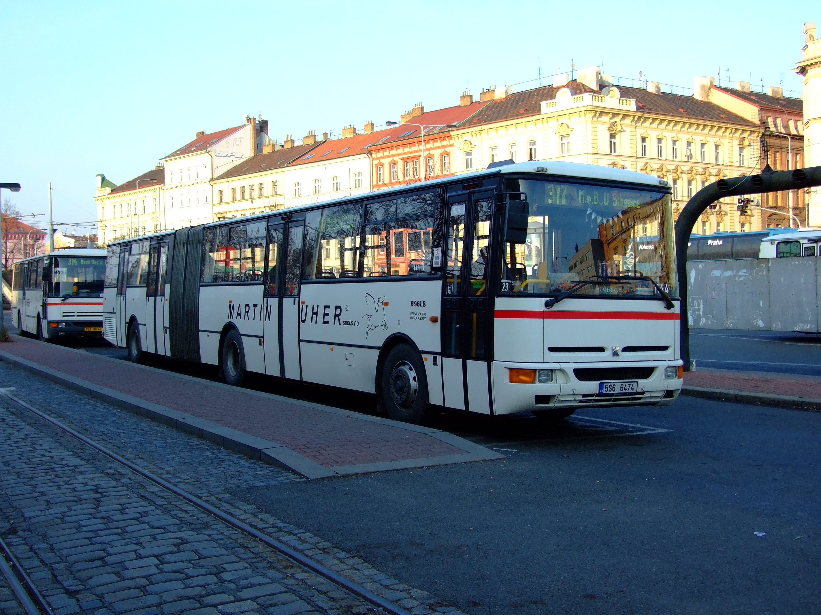 Prague buses, Smíchovské nádraží bus terminus